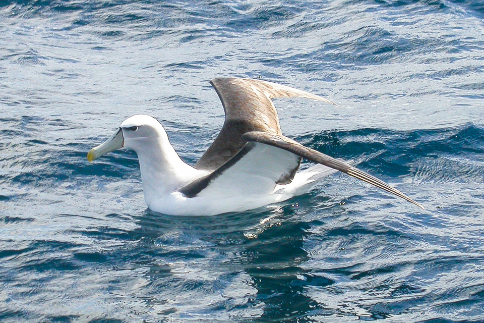 Pelagic trip round Stewart Island.